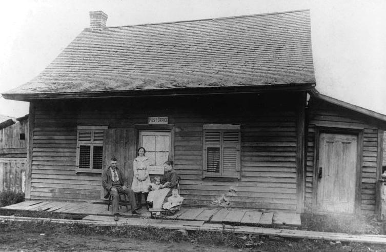 Photograph, Post office, St. Sauveur, QC, about 1890, Anonymous. Silver salts on paper mounted on paper - Gelatin silver process ? - 12 x 17 cm